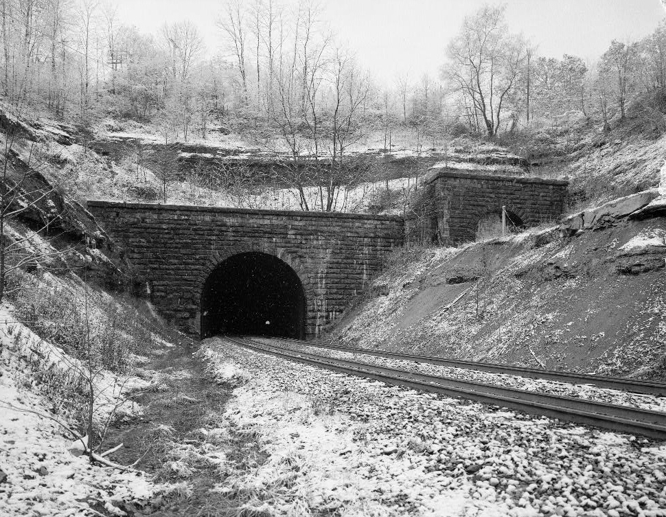 The east portal of the 1911 Kingwood Tunnel, with the original 1858 portal visible at right, near Tunnelton, West Virginia, USA